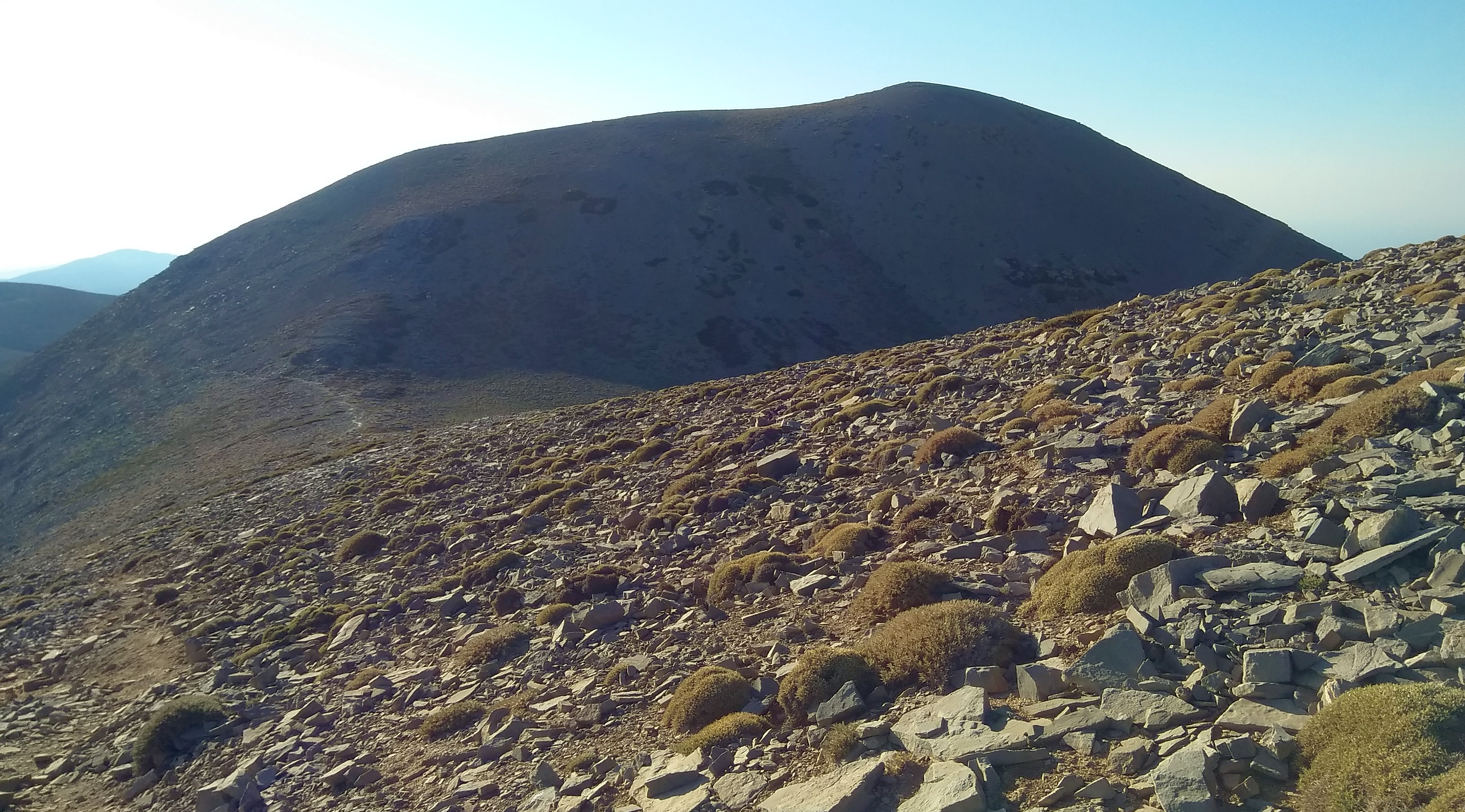 Agathias (Psiloritis): view of its Western slopes